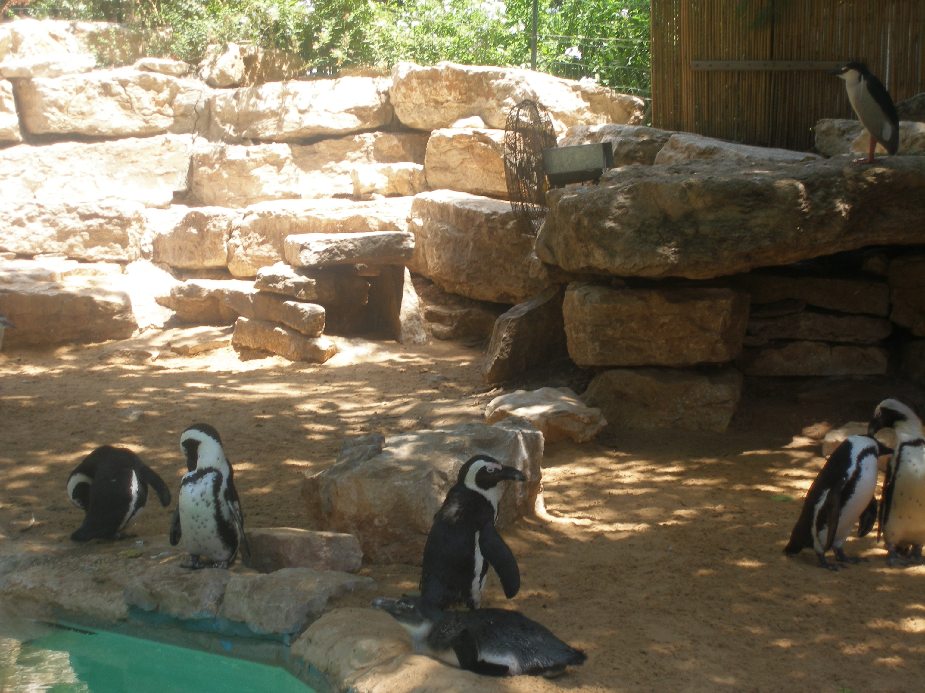 African Penguin.Taken in the Zoological Center of Tel Aviv-Ramat Gan, Israel